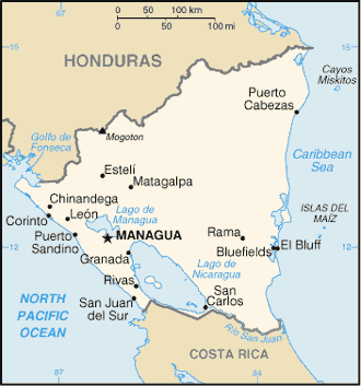 Map of Nicaragua, showing major cities.